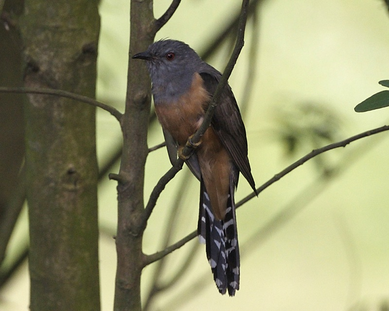 Plaintive Cuckoo Cacomantis merulinus Kaziranga, Assam, India 15th. April 2008 690V4680